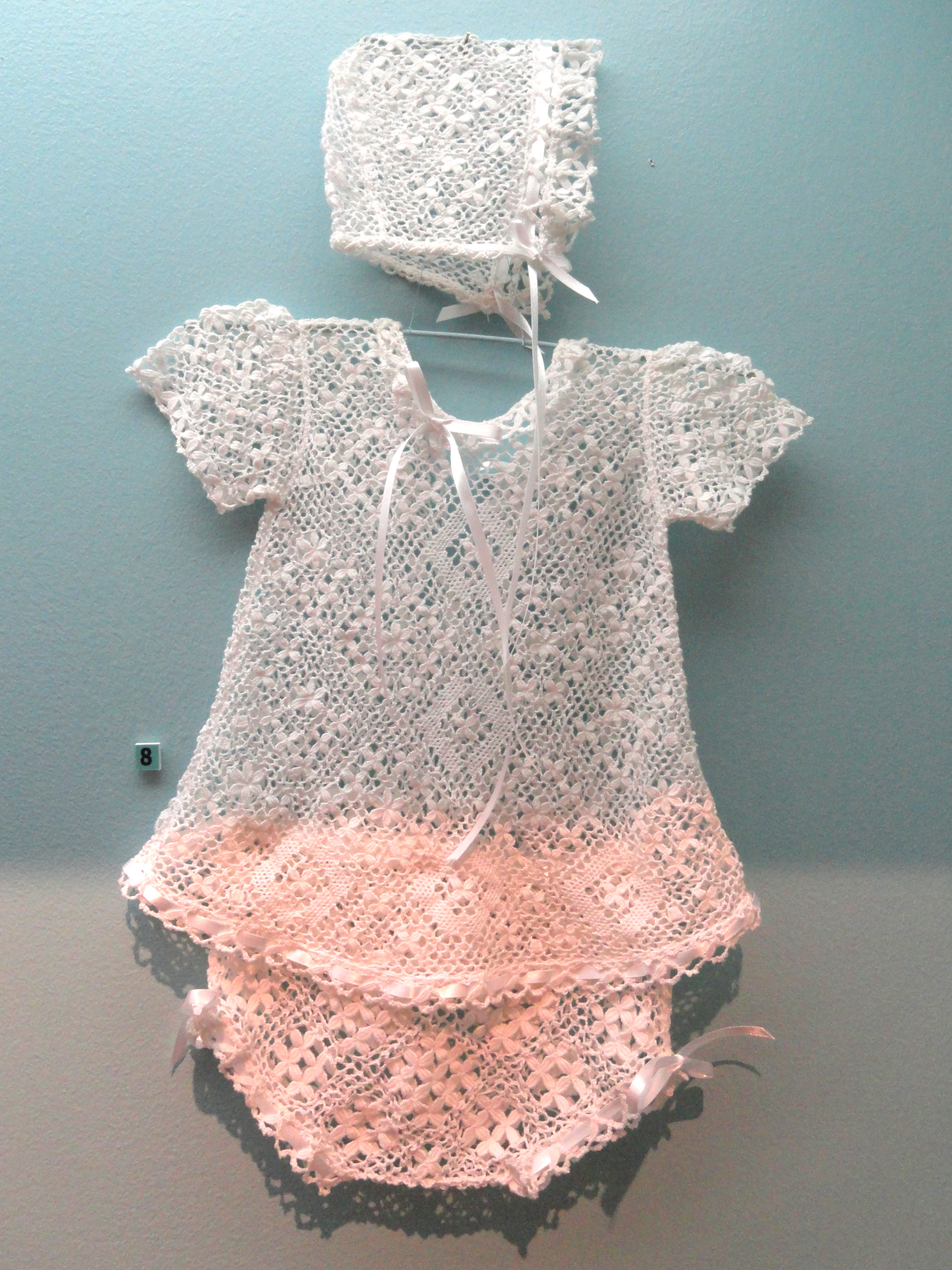 Clothing collection in the Museo de las Americas, Old San Juan, Puerto Rico.